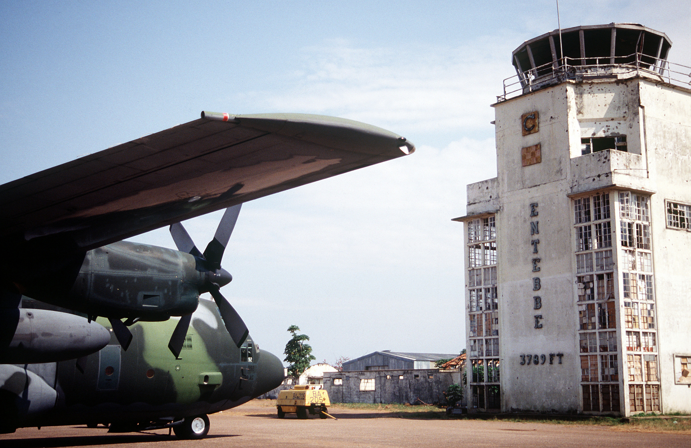 C-130 Hercules on the ramp in front of control tower at Entebbe Airport after arriving with food and supplies for the Rwandan refugee camps.